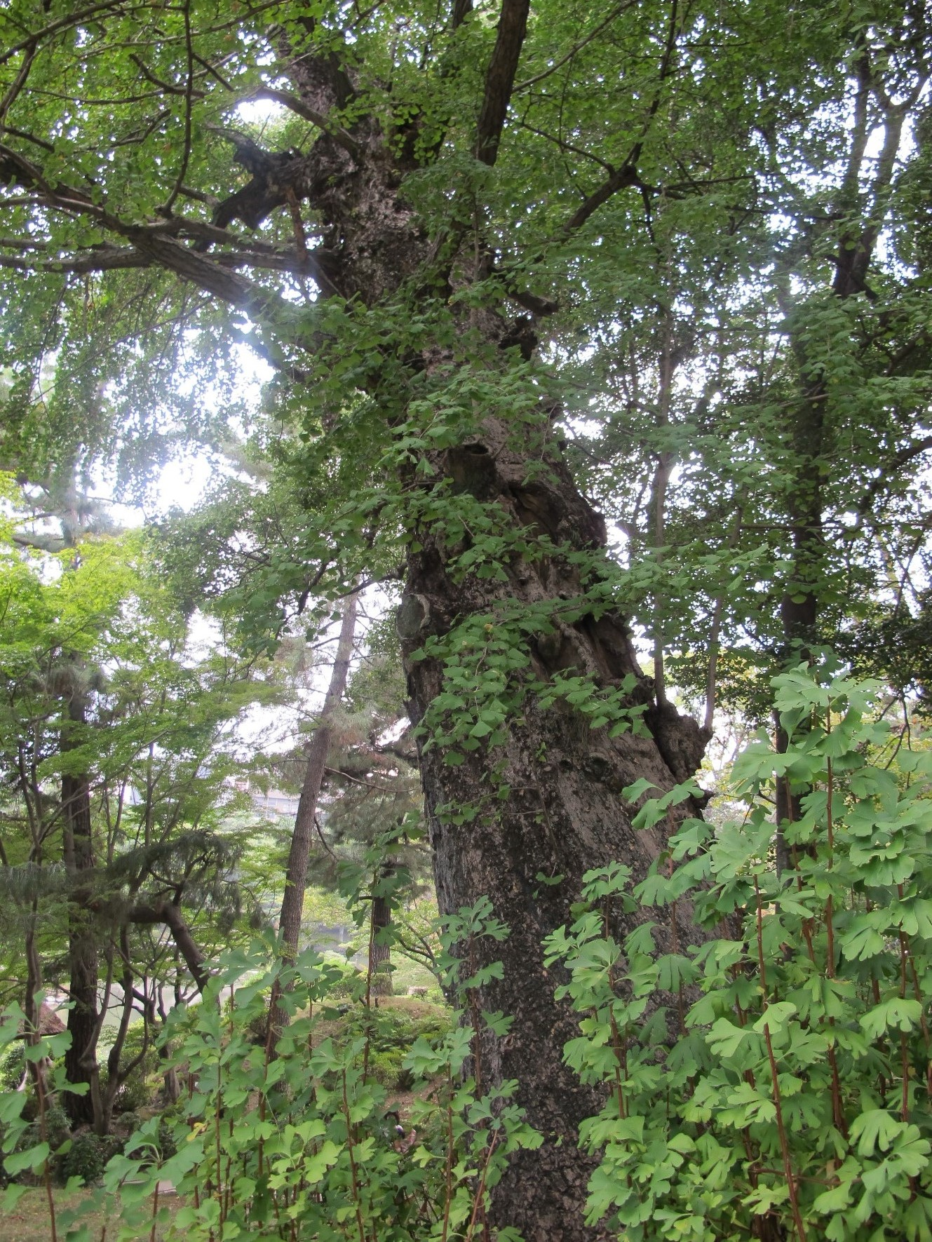 Ginkgo tree wihtin Shukkei Garden, Hiroshima